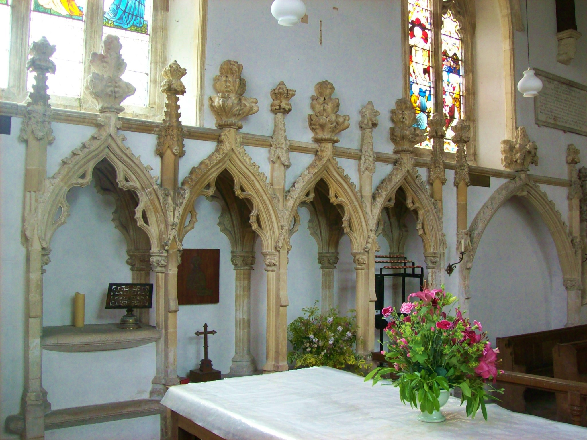 Piscina and sedilia, St Margaret, Lewknor